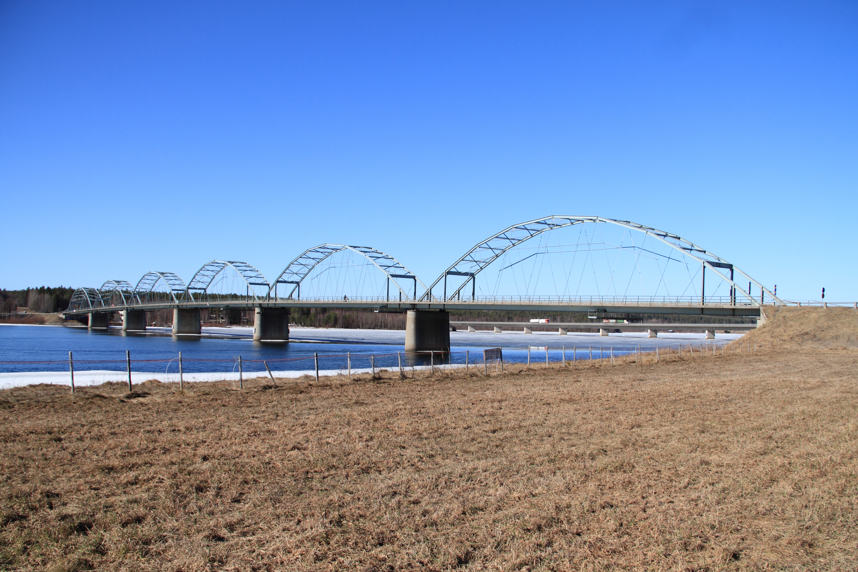 Side view of Gamla Gäddviksbron over Lule River in Norrbotten, Sweden. View from east bank.